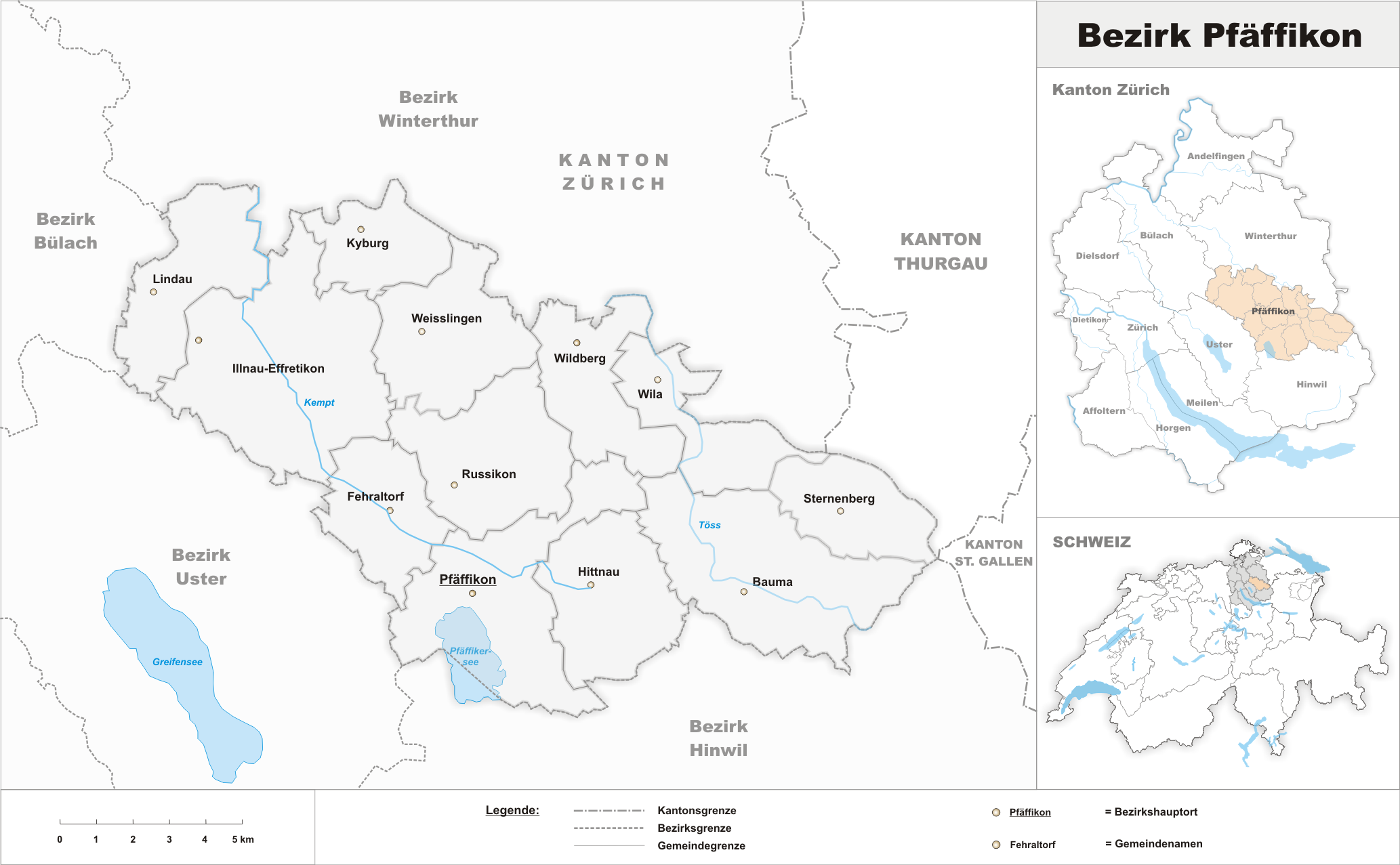 Municipalities in the district of Pfäffikon